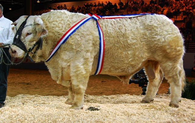 Charolais bull at an exhibition (Salon de l'Agriculture, Paris, 2010)